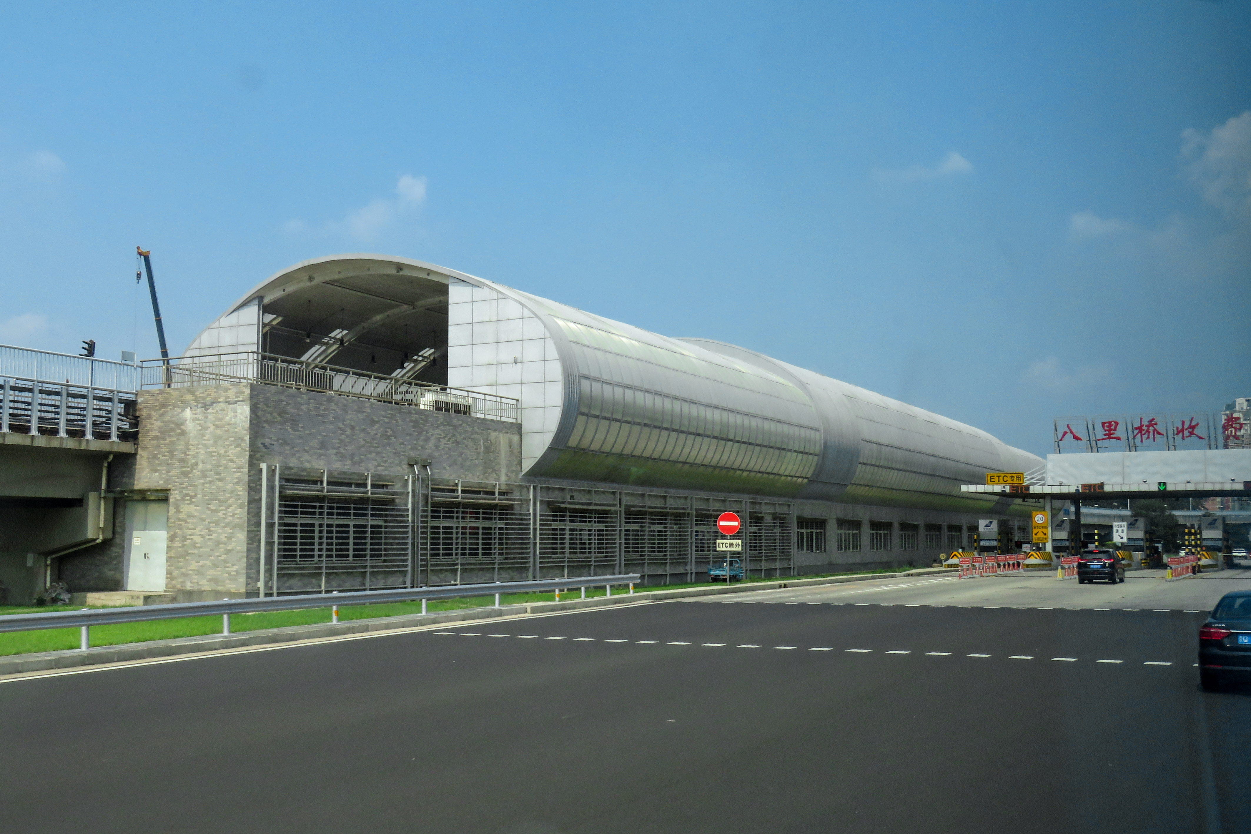 Just next to Baliqiao Toll Gate.